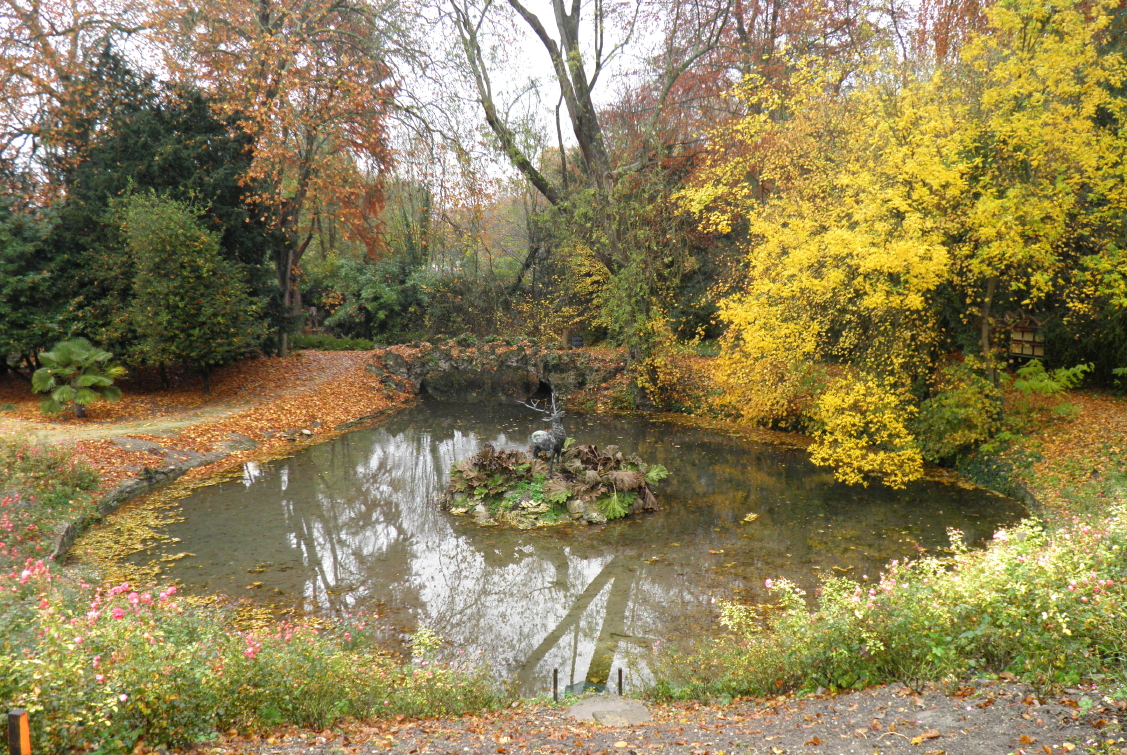 Bassin de la Tenaille, former pool in the west part of the former Chantilly castle gardens. Now in Potager des Princes, Chantilly, Oise, France. Autumn View.